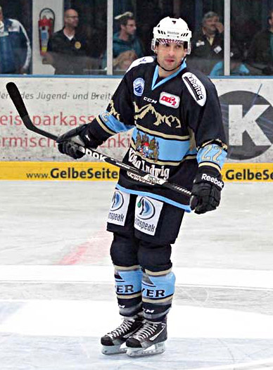 Lubor Dibelka